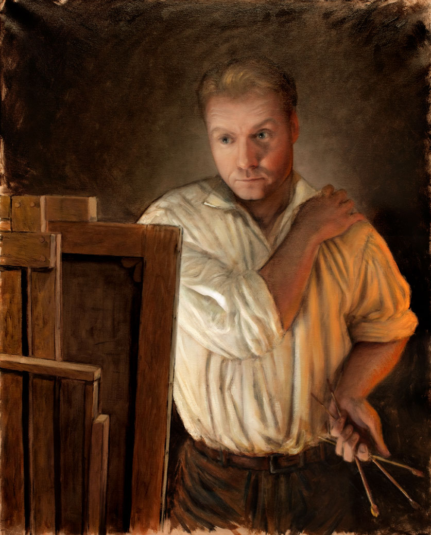 I honestly don't understand why I, Mart Sander, am prohibited from uploading my self portrait, painted OF me and BY me, of which I am the sole copyright holder (both the painting and the photo of it) to this article about me.